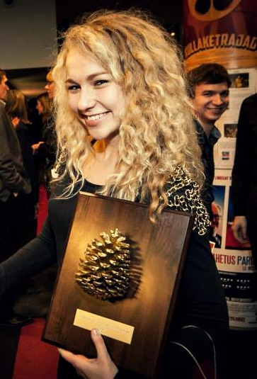 Tallinna noorte õiguste edendaja 2013